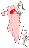 Map of Bahrain showing Al Mintaqah al Wusta municipality. The municipalities were dissolved in 2002 and replaced with governorates.